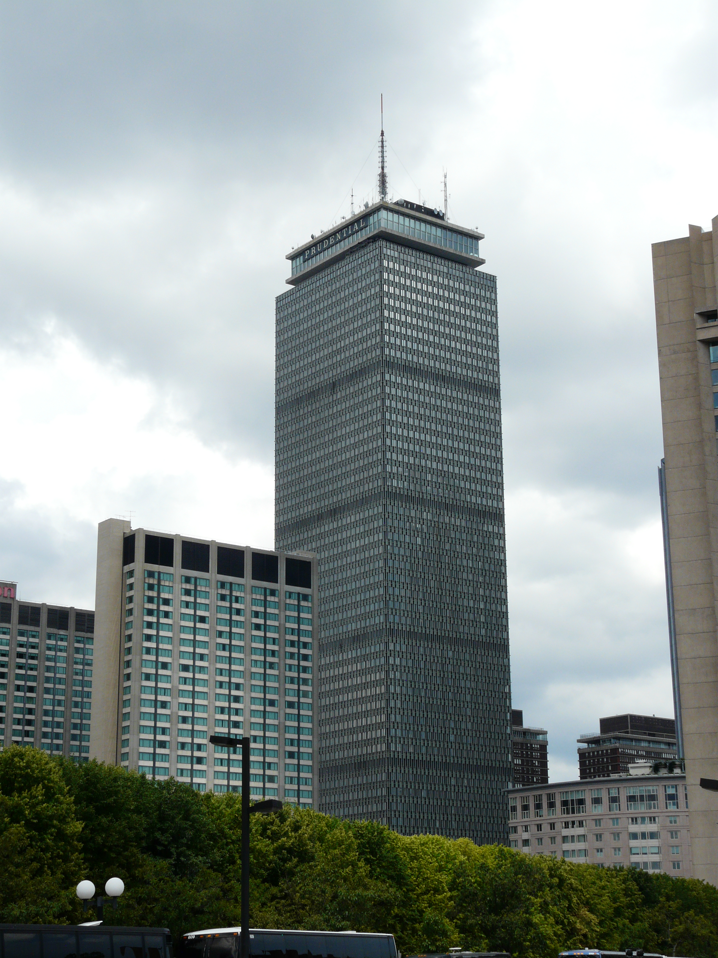 Prudential Tower, Boston